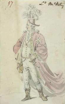 Lord George Macartney on his embassy to China